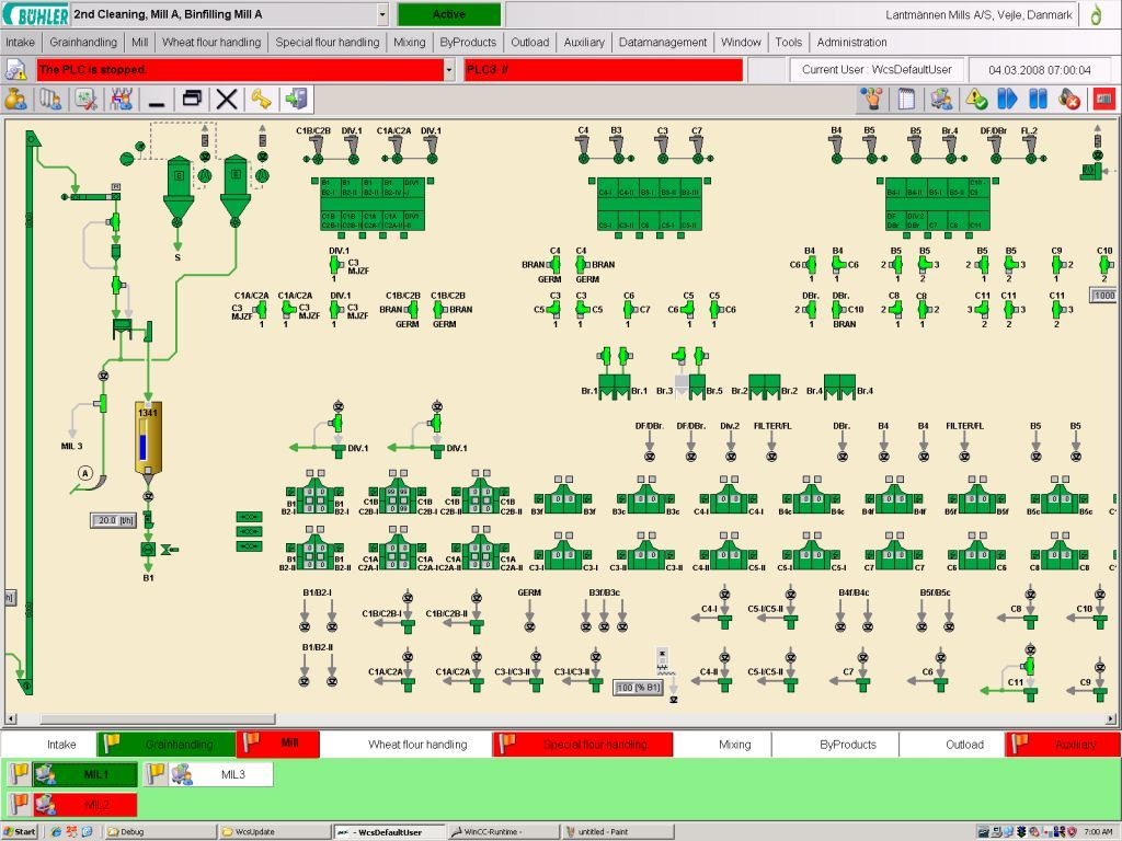 Printscreen Flour Mill with WinCos.r2